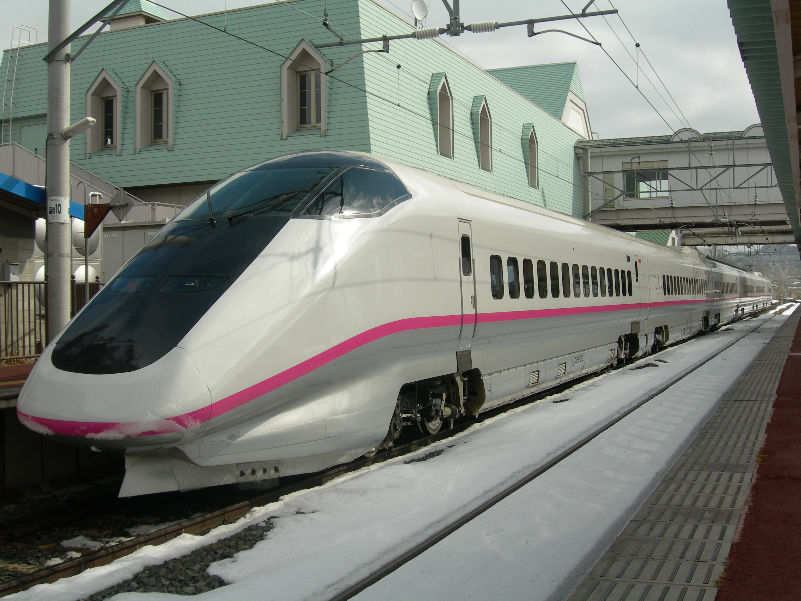 A JR East E3 series shinkansen EMU at Shizukuishi Station on an Akita Shinkansen Komachi service